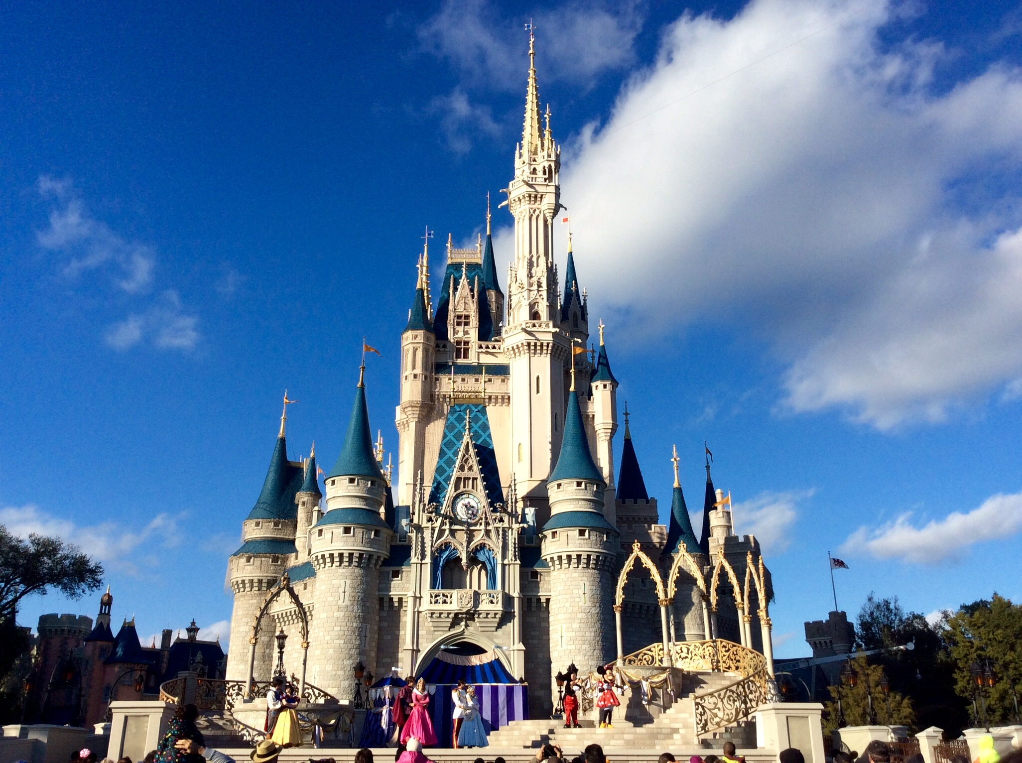 Cinderella Castle at Magic Kingdom.